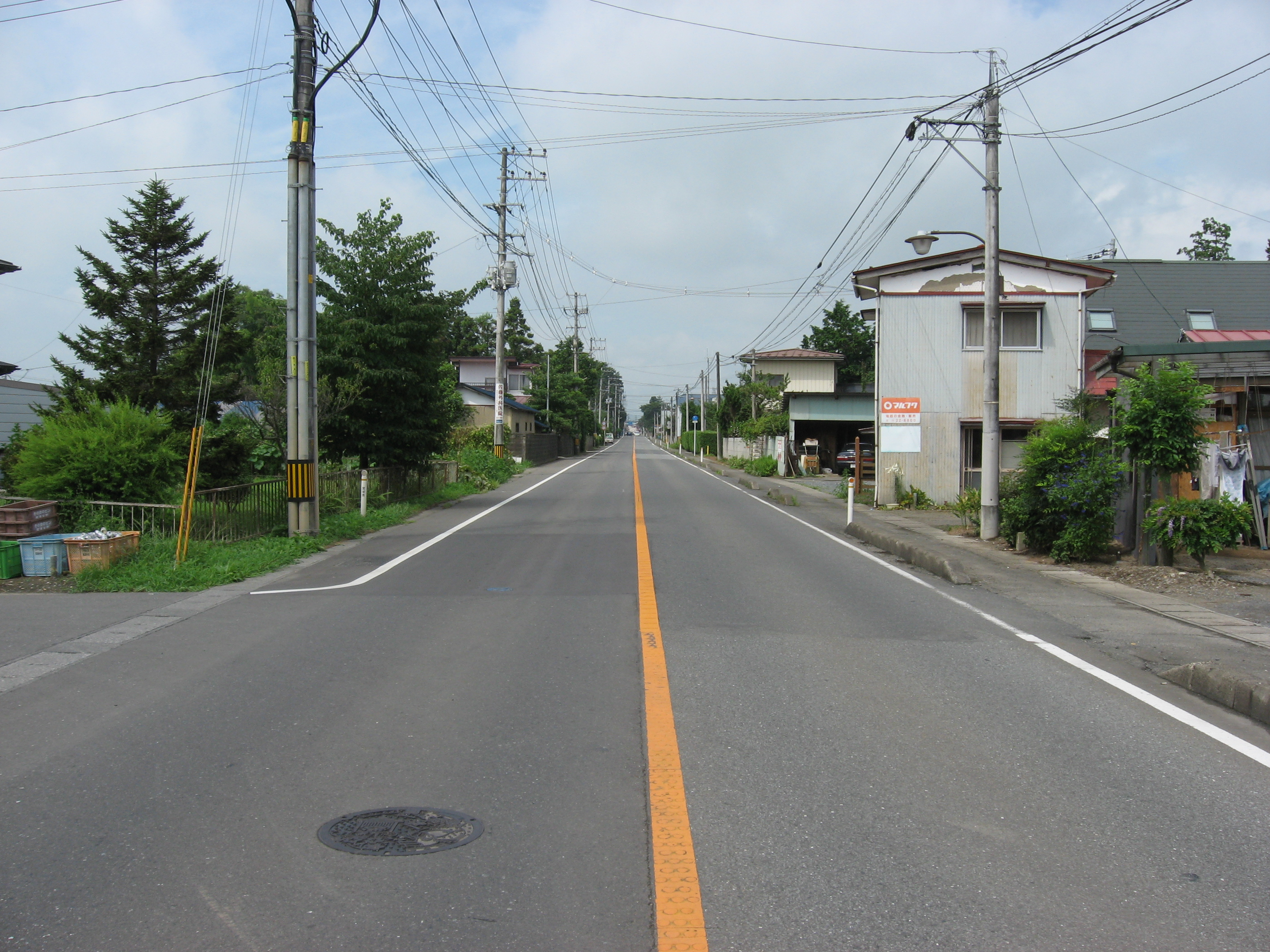 Miyagi prefectural Road 1, Furukawa-Sanuma Line. Takashimizu, Kurihara, Miyagi prefecture, Japan.